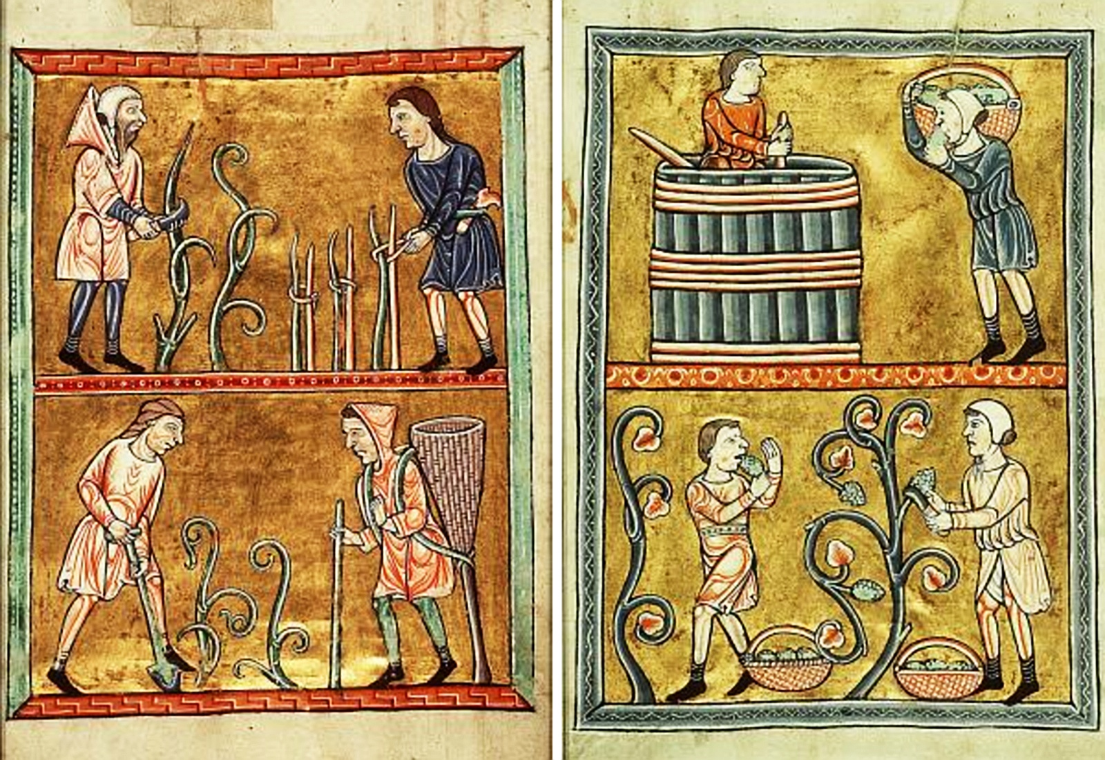 Winemaking (March & September), from a Psalter of c. 1180